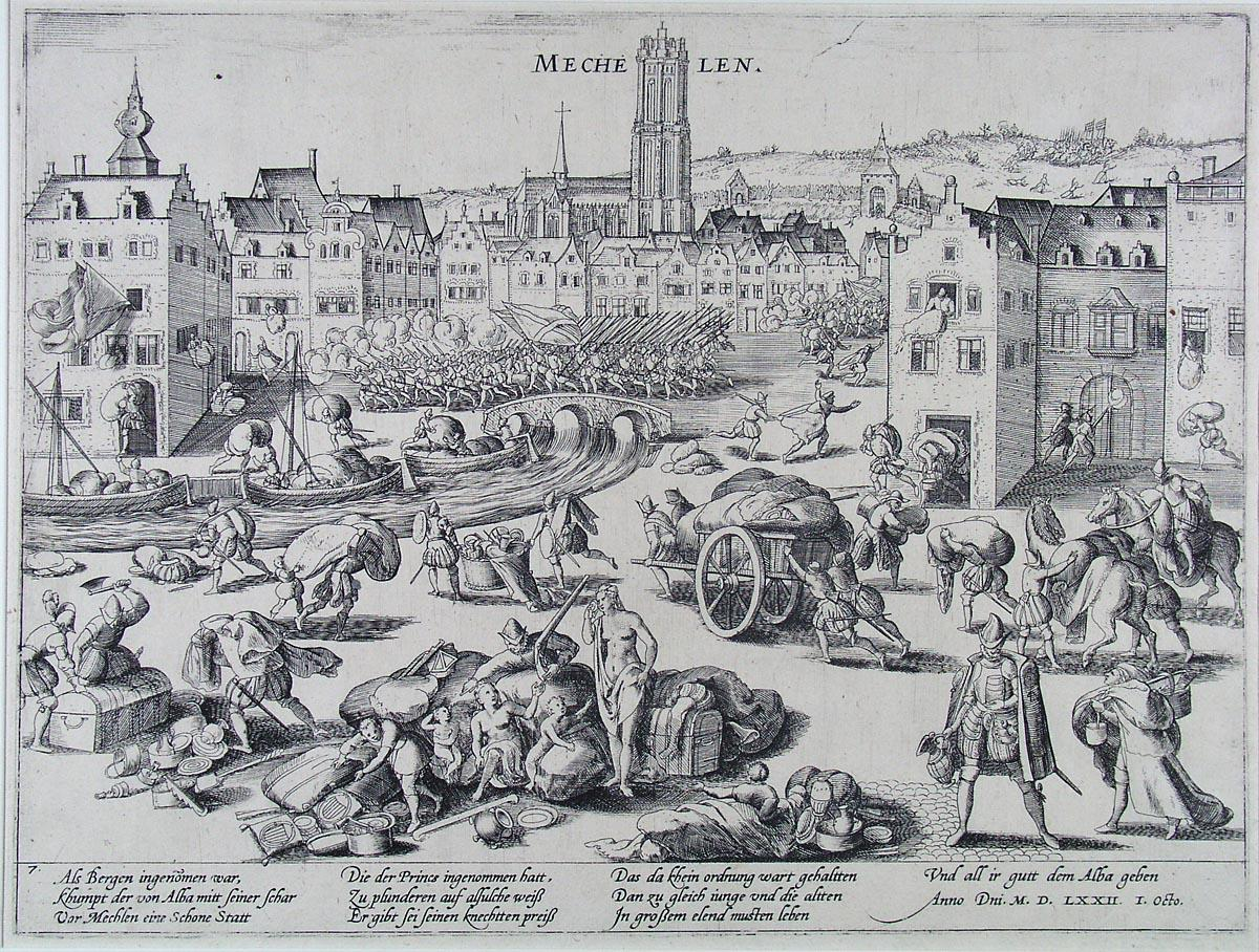 The sacking and looting of Mechelen by the Spanish troops led by the Duke of Alba, 2 October 1572